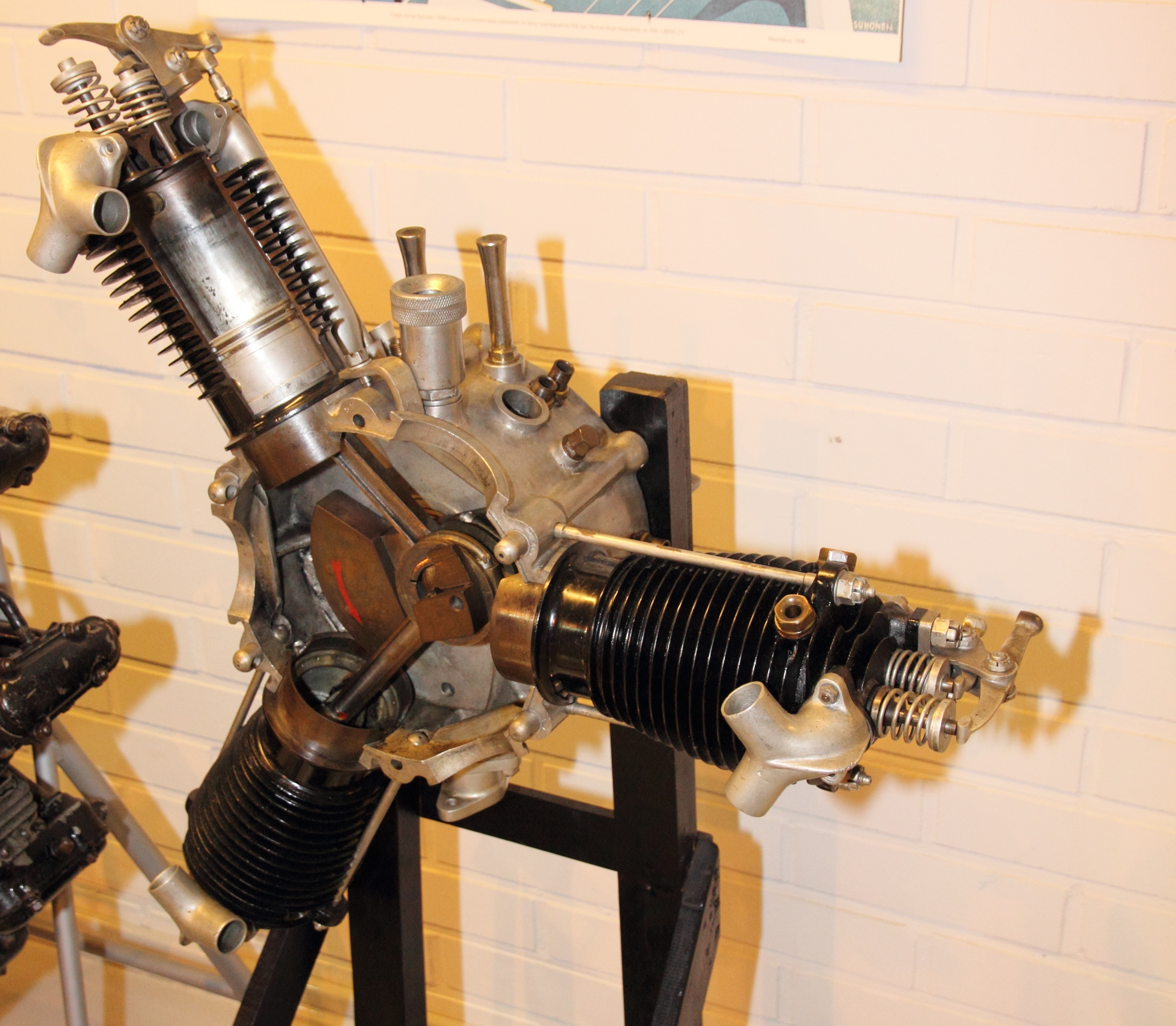 Cutaway Anzani 6 B 6-cylinder 60 hp aircraft engine, serial number 7923, in the Aviation Museum of Central Finland. (To better show the engine's workings, the front three cylinders and their pistons have been removed.)